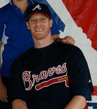 GCL Braves player James Linger and former Atlanta Braves pitcher Phil Stockman at Queensland's Training With the Pro's.